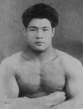 Masahiko Kimura (1917-1993) at age 18.